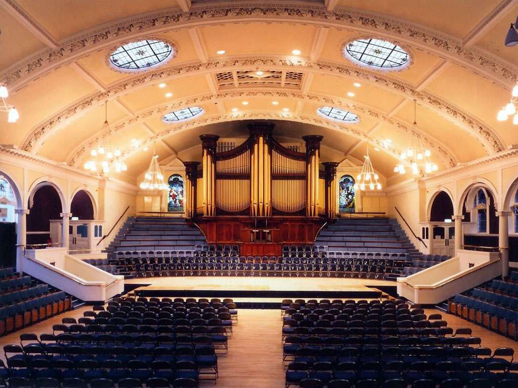 The Great Hall Front Aspect